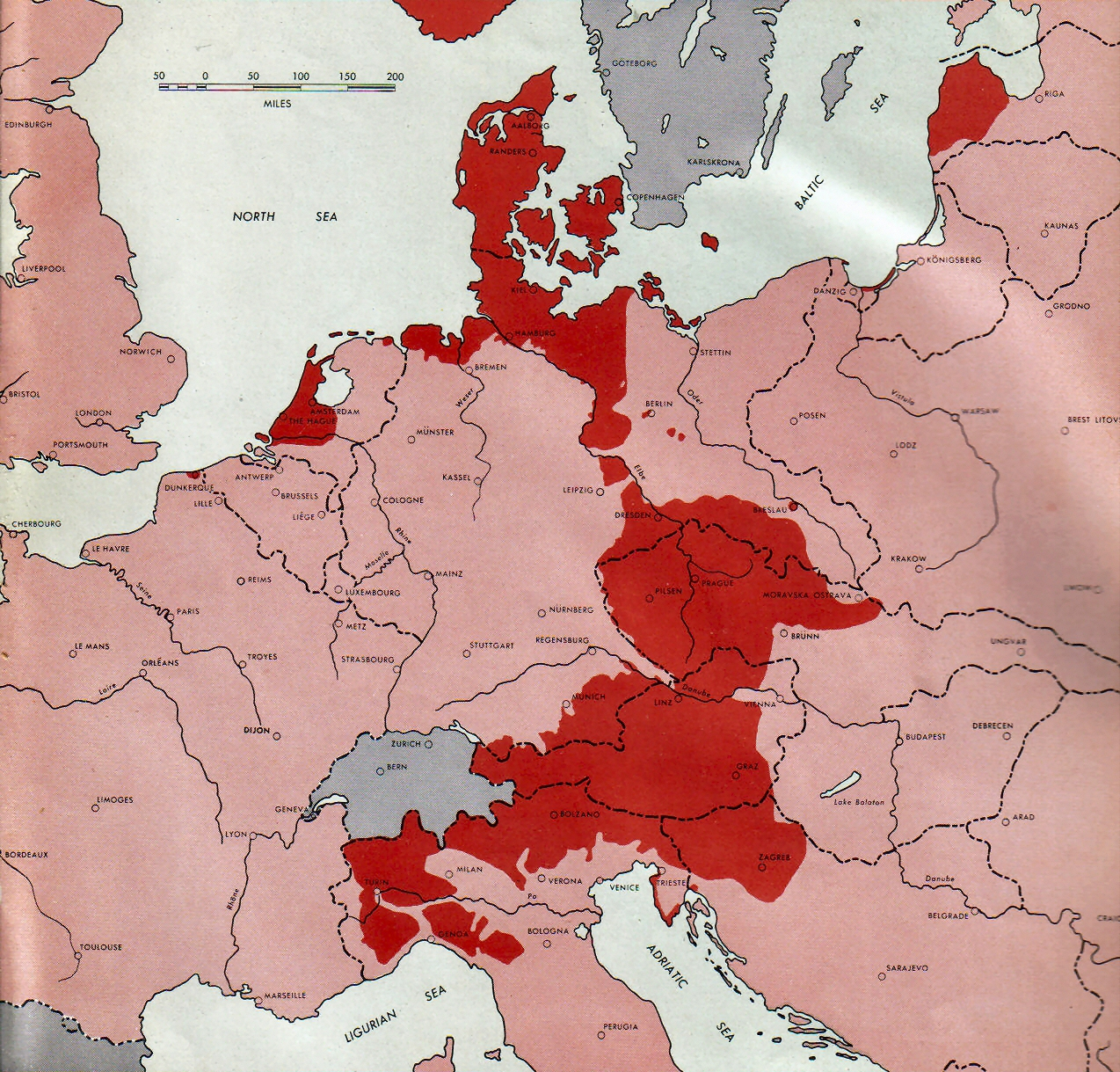 Map of the front against Germany: This map is taken from the source "Atlas of the World Battle Fronts in Semimonthly Phases to August 15th 1945: Supplement to The Biennial report of The Chief of Staff of the United States Army July 1, 1943 to June 30 1945 To the Secretary of War". (See Cover, Forward and Map details)